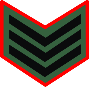 Chief Sergeant rank insignia that used on combat uniforms of Indonesian National Armed Forces (holder of command)